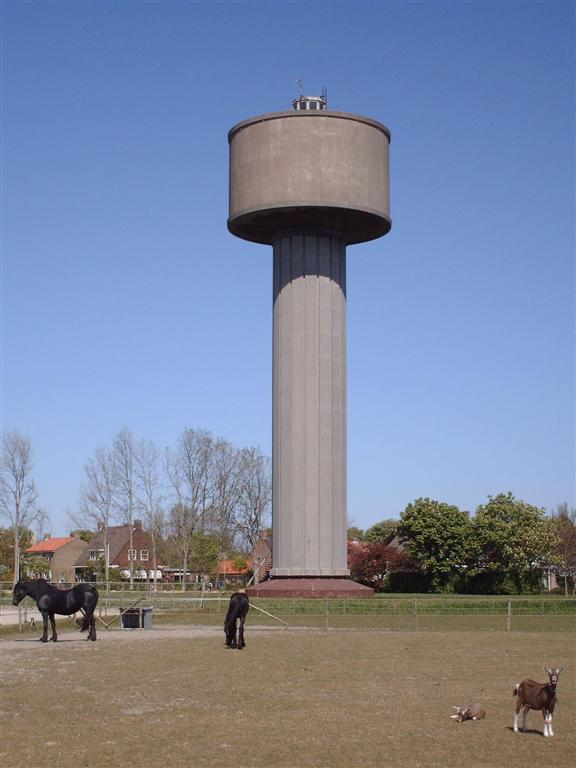 Watertoren Sint-Jacobiparochie